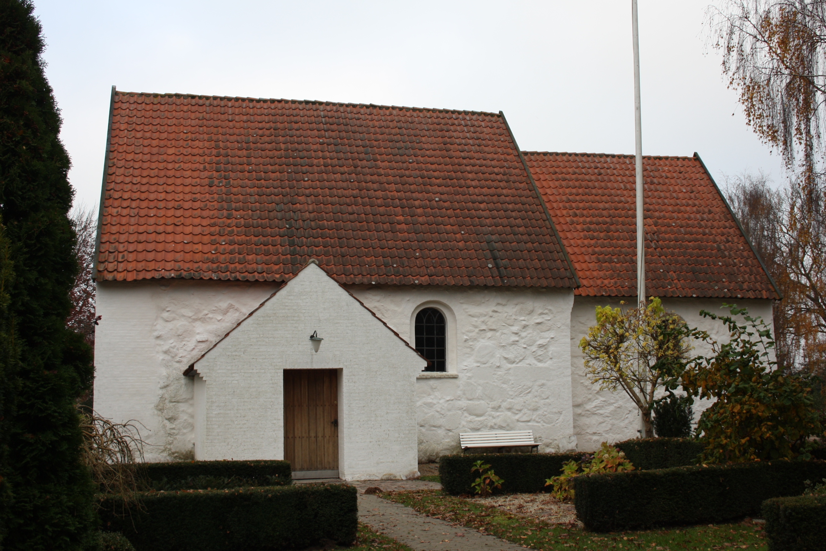 Romlund Church, Viborg, Denmark